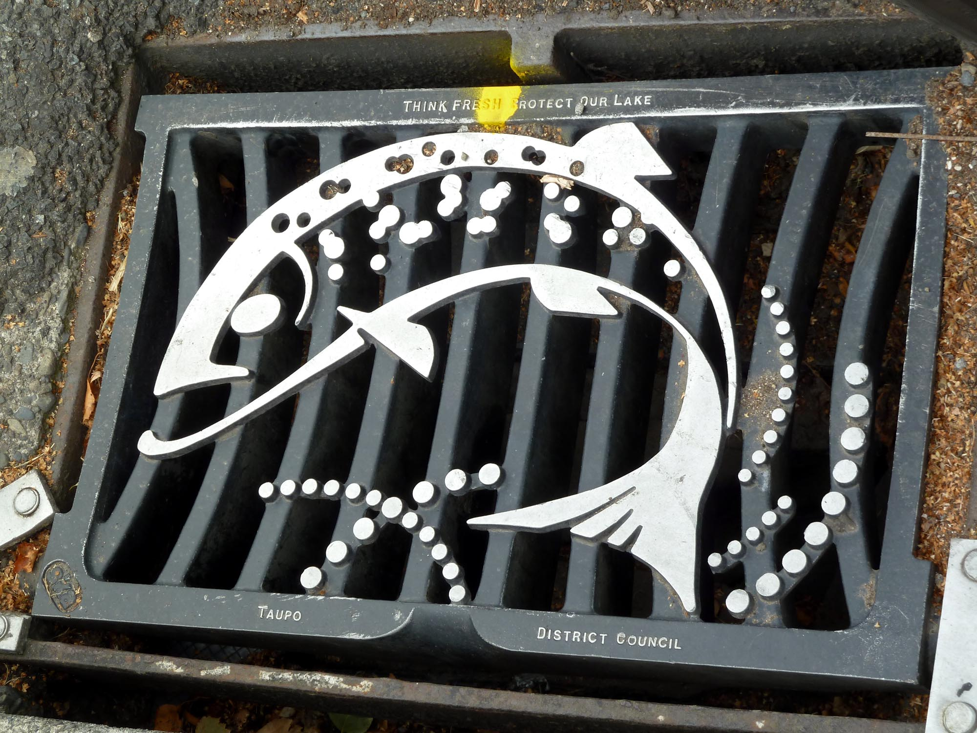 Surface water drain in Rotorua, New Zealand showing fish image as a warning against pollution